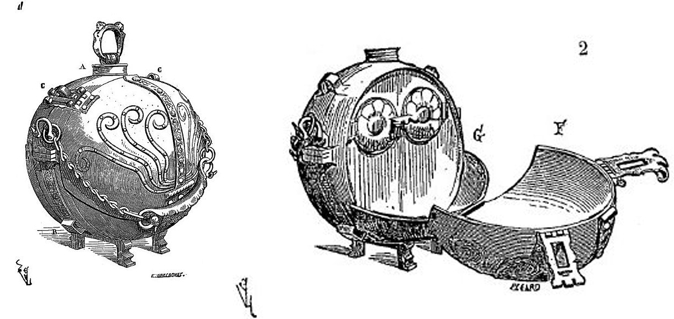 Drawing of a canteen of the seventeenth century kept in the museum of Cluny. Iron and tin, 40 cm height. The top handle lets bronze unscrew the cap from the orifice through which is introduced boiling water in half of the sphere. C ears allow the passage of a belt clip. In the open canteen (Fig. 2), two discs clog small ovens that can contain warm cooked meat. In the folded F, set on fire, or in the G pocket, you can cook vegetables or soup. This F acts as dish, but can also contain bread, towels, knives, spoons and forks.